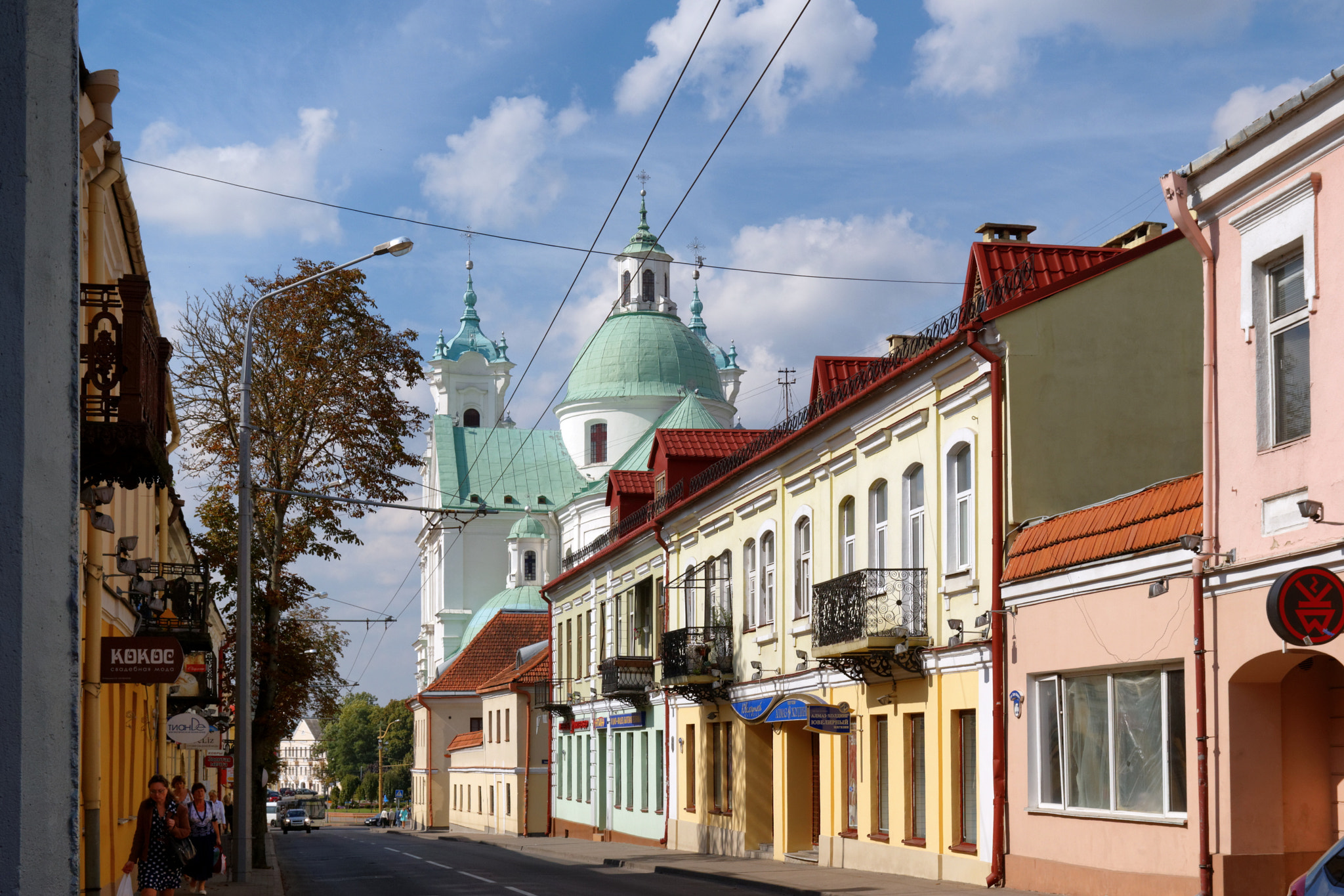 500px provided description: Grodno ?????? [#autumn ,#city ,#????? ,#september ,#????? ,#grodno ,#belarus ,#?????????? ,#???????? ,#2014 ,#???????? ,#??????]